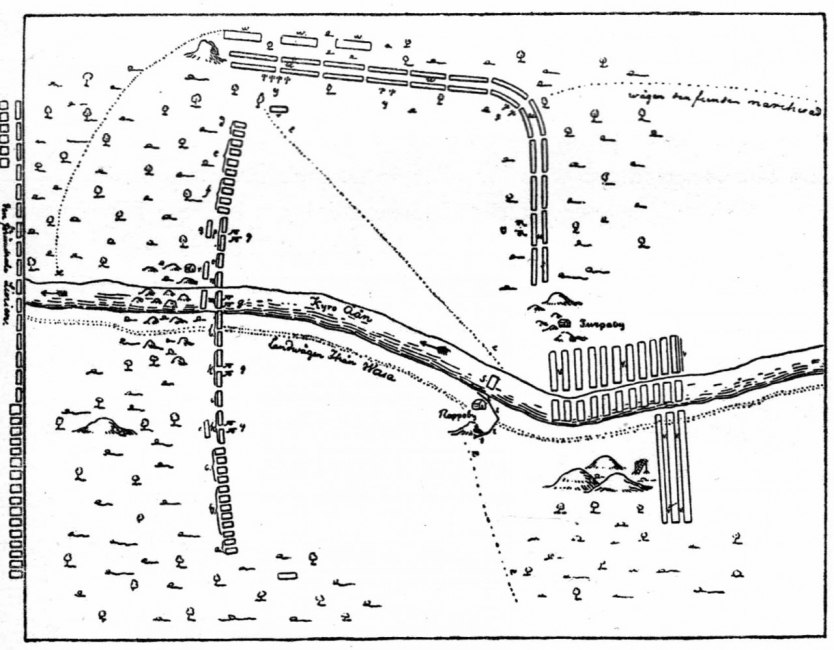 This is general Armfeldt's own sketch of the battle at Storkyro. The Kyrönjoki (River of Storkyro) goes horisontally over the map, and immediately below is the road to Vasa. There is no north-south-arrow on the map, but the Kyrönjoki flows in northwest direction. Close to the middle of the map, between the river and the road, Armfeldt has placed Napo village. The Finnish army is grouped in the left part of the map, with the cavalry on the flanks and the infantry in the center. The main battle was fought on the fields north of the river, where Golitsyn, after a flanking move through the forrest descended on the left part of Armfeldt's infantry flank.